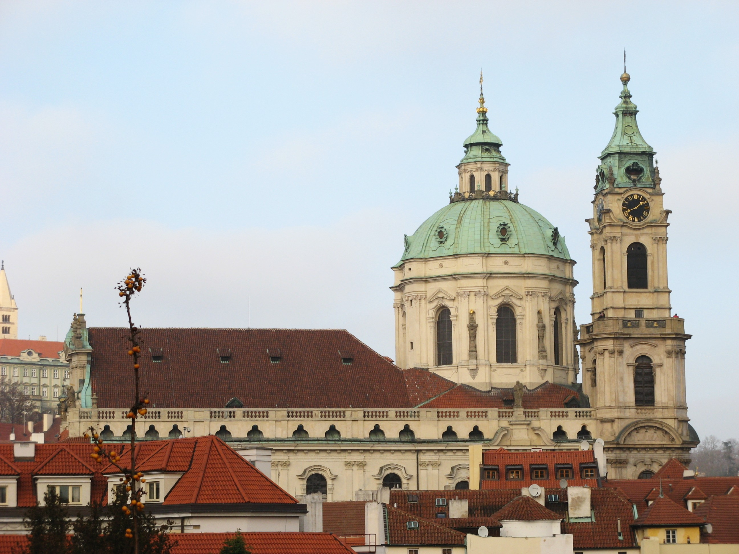 Church of St Nicholas of Mala Strana in Prague